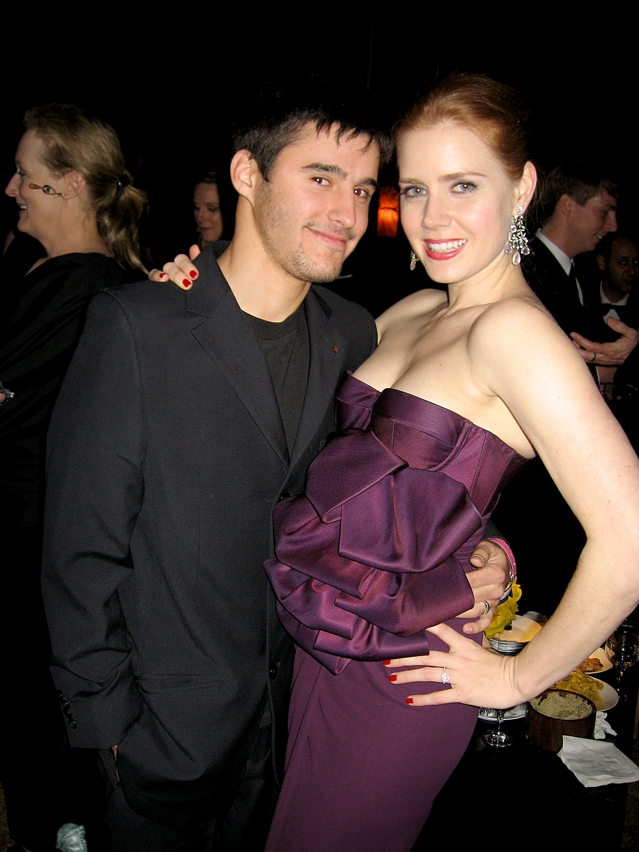 (L-R) Producer Josh Wood and the Academy Award nominated actress Amy Adams attend the 15th Annual Screen Actors Guild Awards cocktail party held at the Shrine Auditorium on January 25, 2009 in Los Angeles, California.